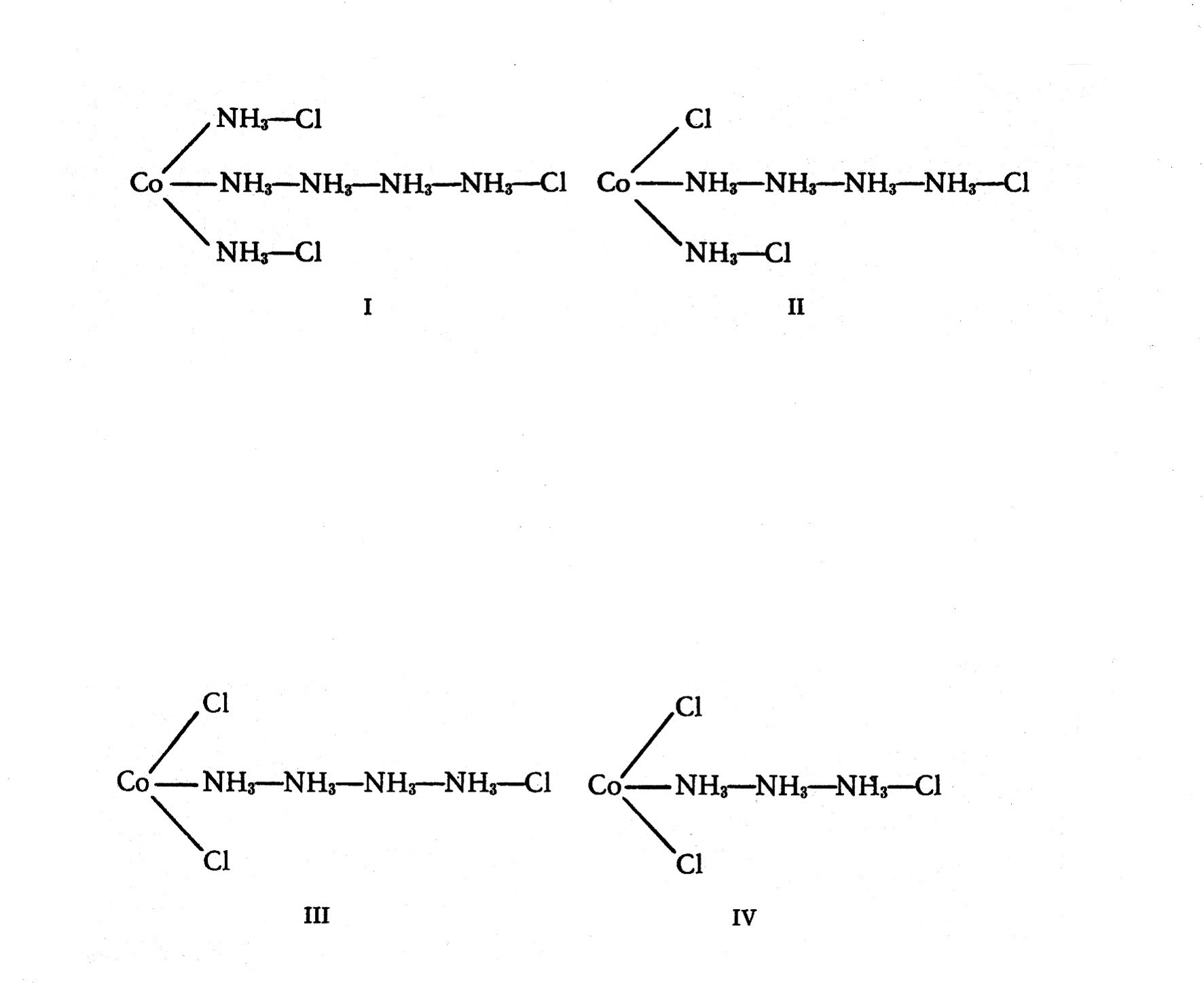 Blomstrand-Jorgensen Chains